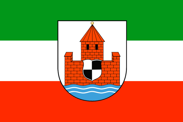 Flag of Sovetsk, Kaliningrad Region, Russia